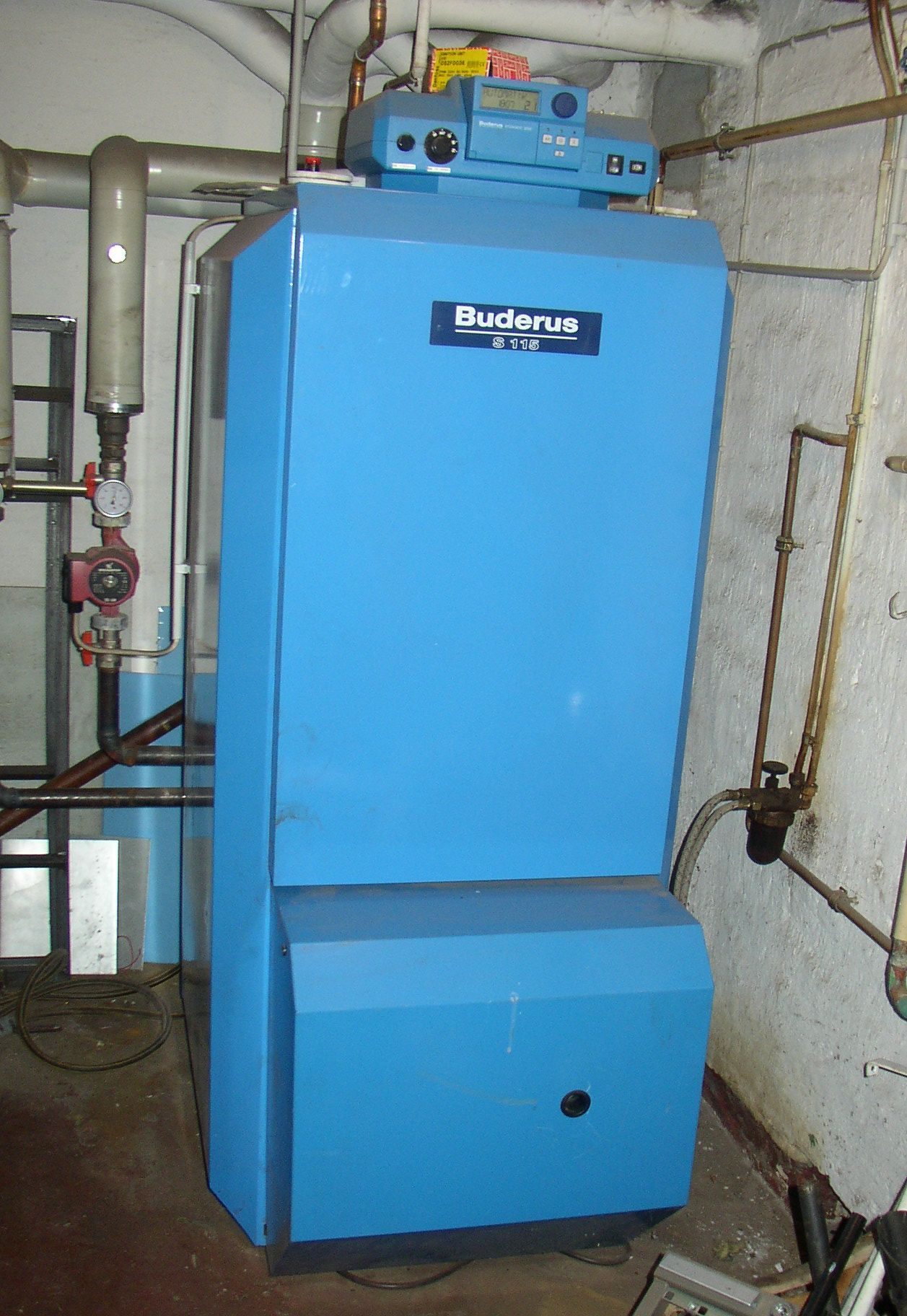 oil heating